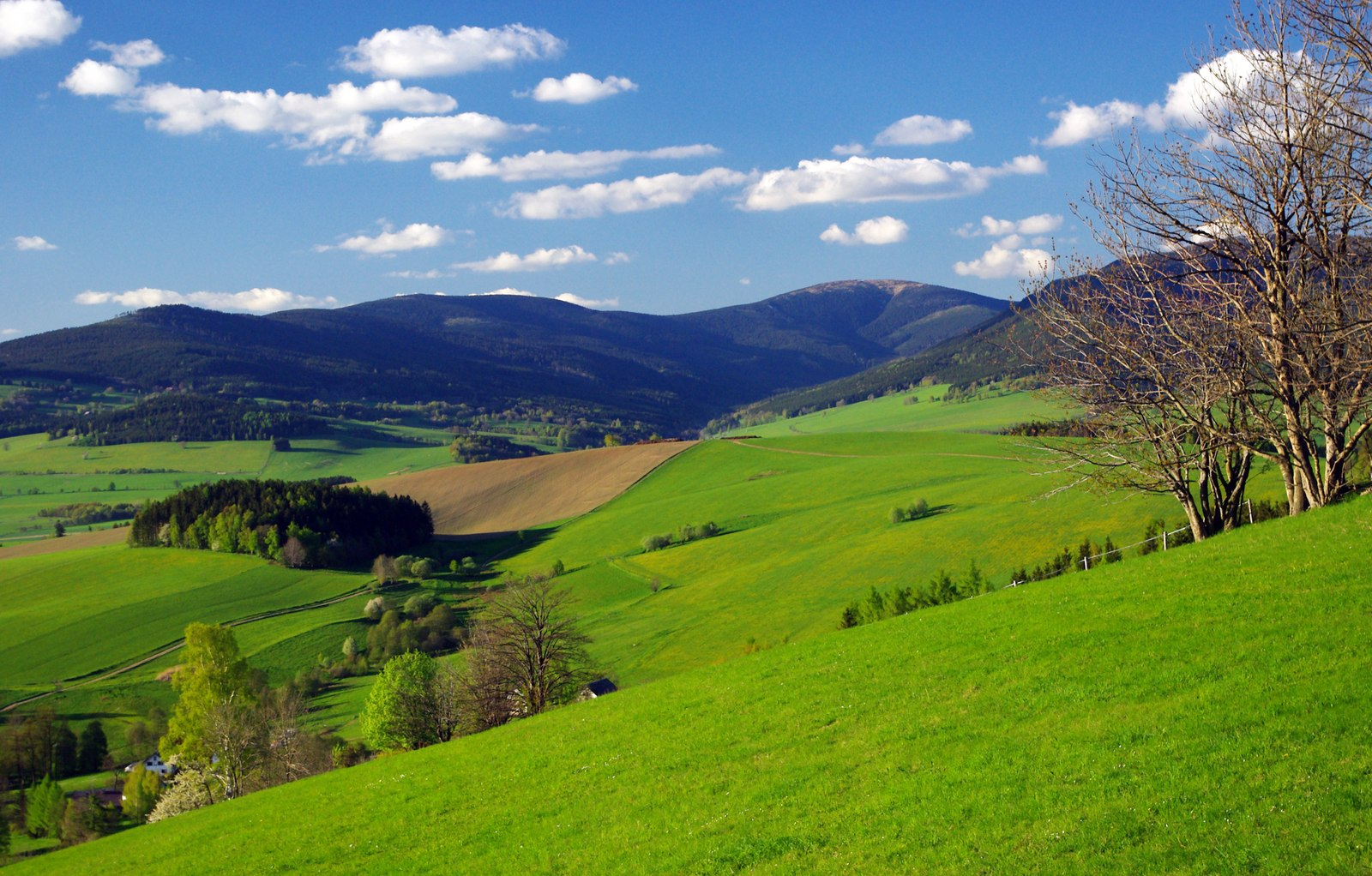 Kralicky Sneznik mountain